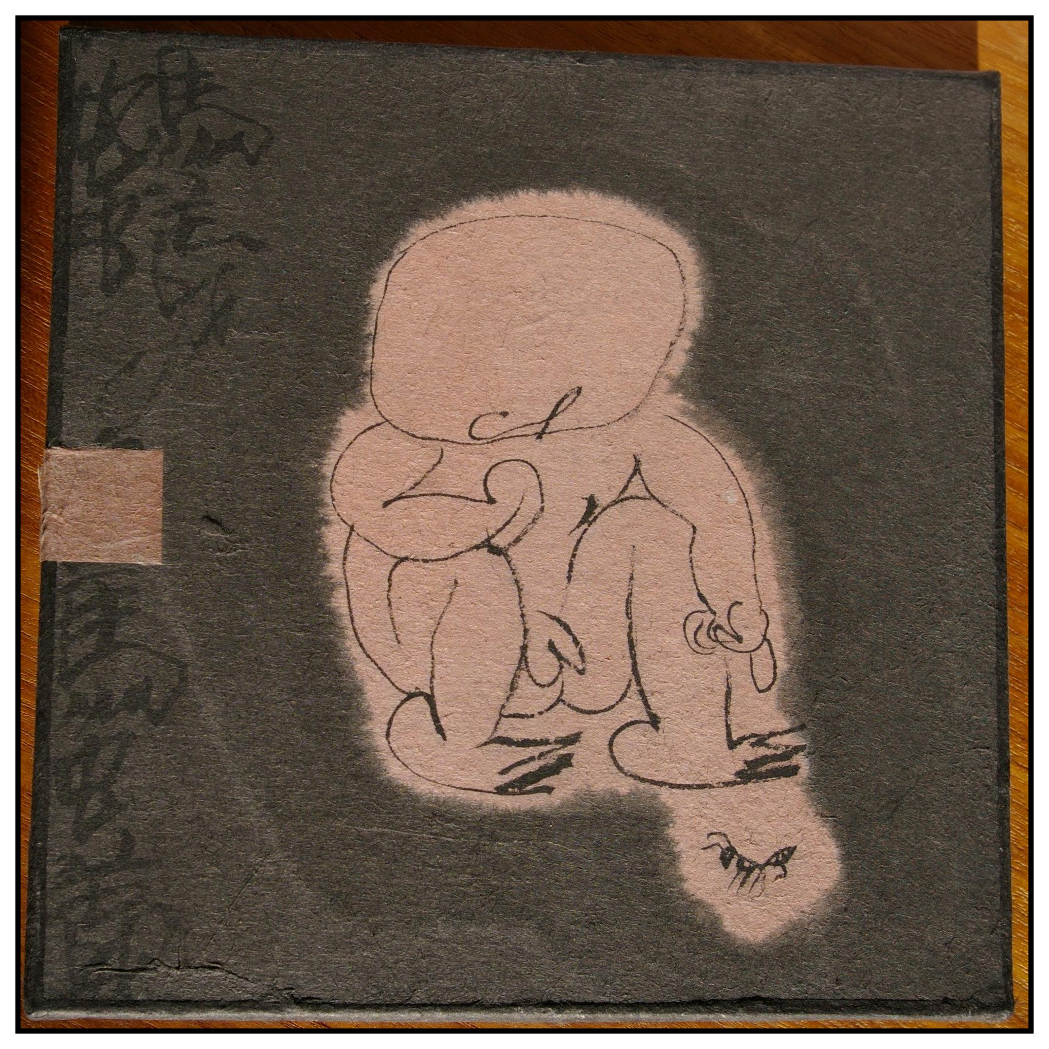 child and ant painter ye xin